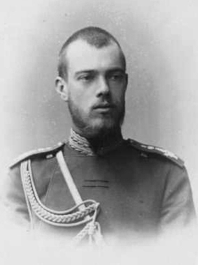 Grand Duke Sergei Mikhailovich of Russia early youth